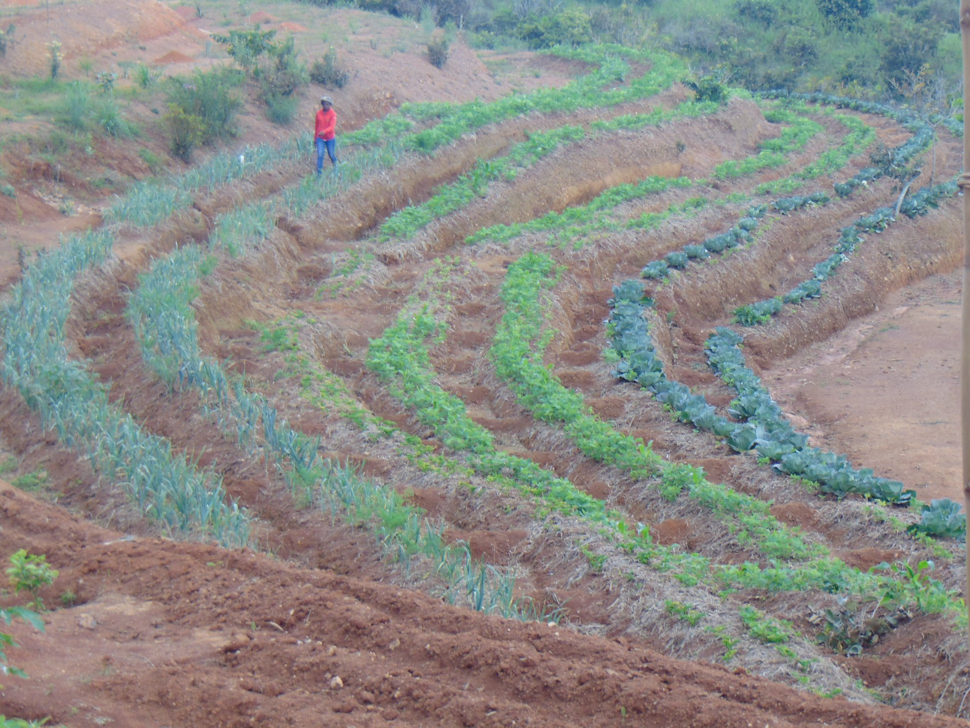 Paysage de Ecovillage Permaculture-Bandrefam